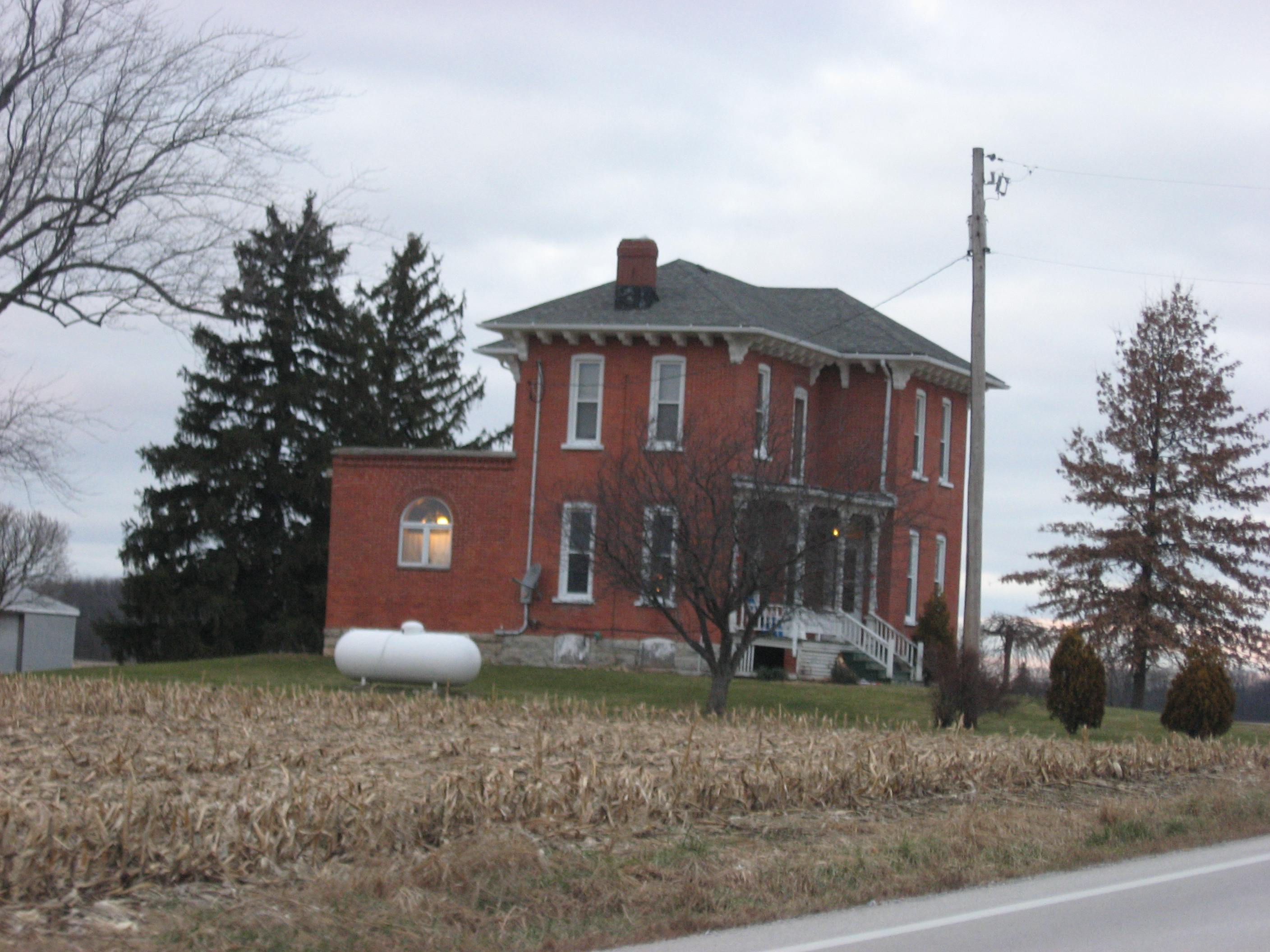 Southern side and front of the Michaels Farmhouse, located along State Route 635 south of Kansas in Liberty Township, Seneca County, Ohio, United States. Built in 1878, it is listed on the National Register of Historic Places along with five other farm buildings.